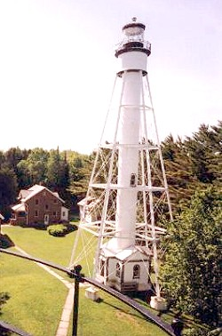 Michigan Island Light, second (steel) tower built 1929.